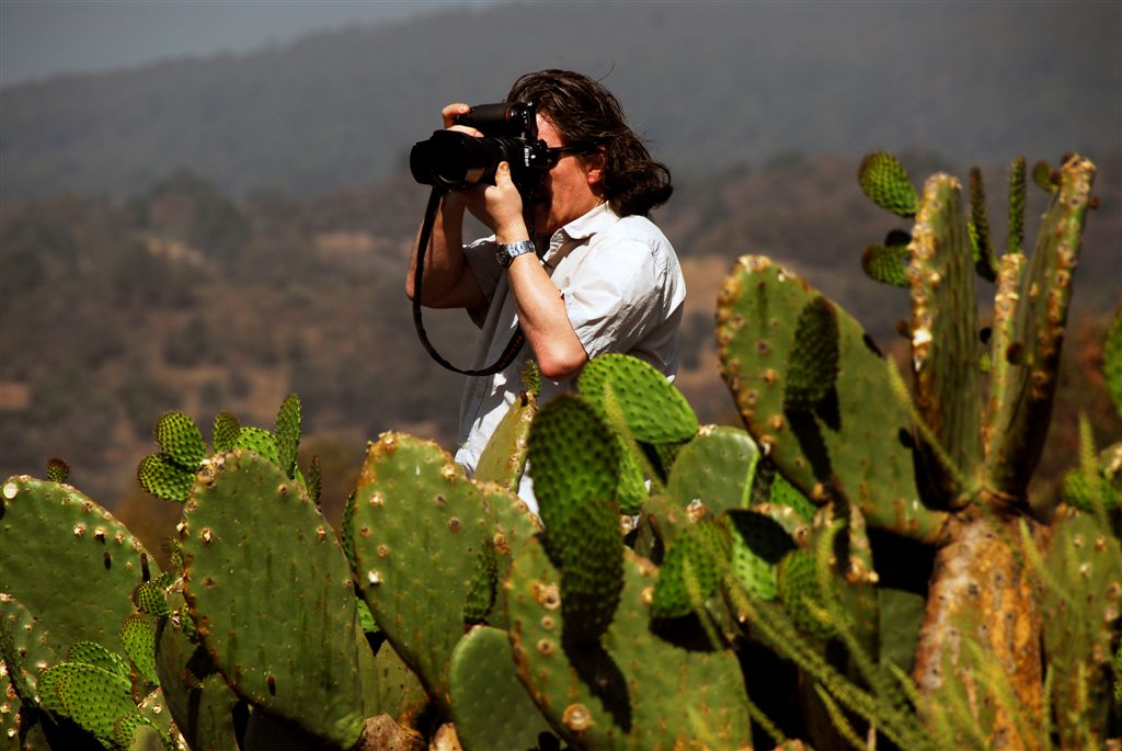 Victor Diaz Lamich, Canadian photographer